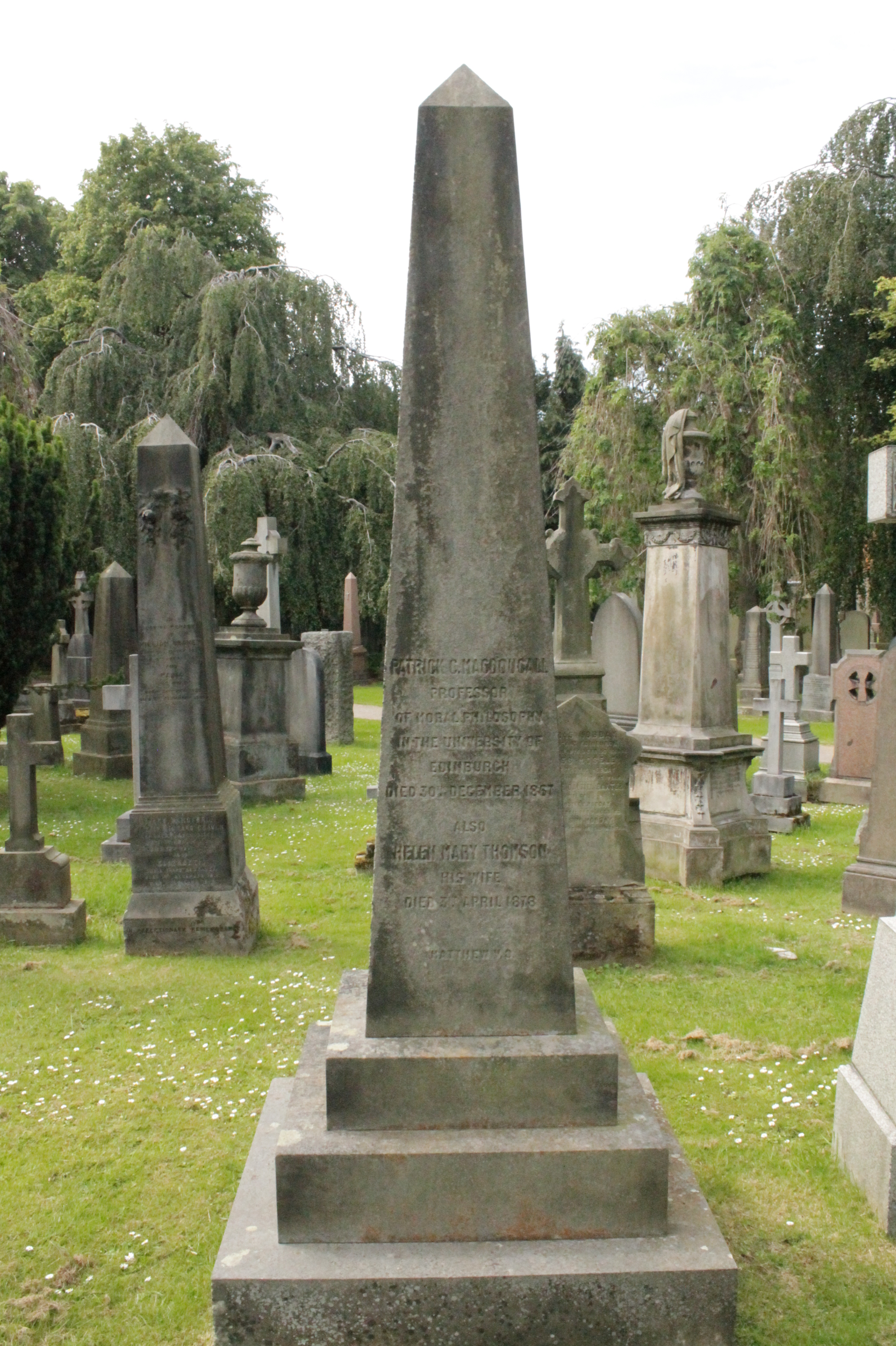 The grave of Prof Patrick MacDougall, Dean Cemetery